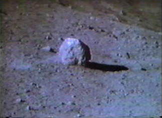 Big Muley, Lunar Sample 61016, prior to collection, on the rim of Plum crater crater during Apollo 16 (EVA 1), on the moon.